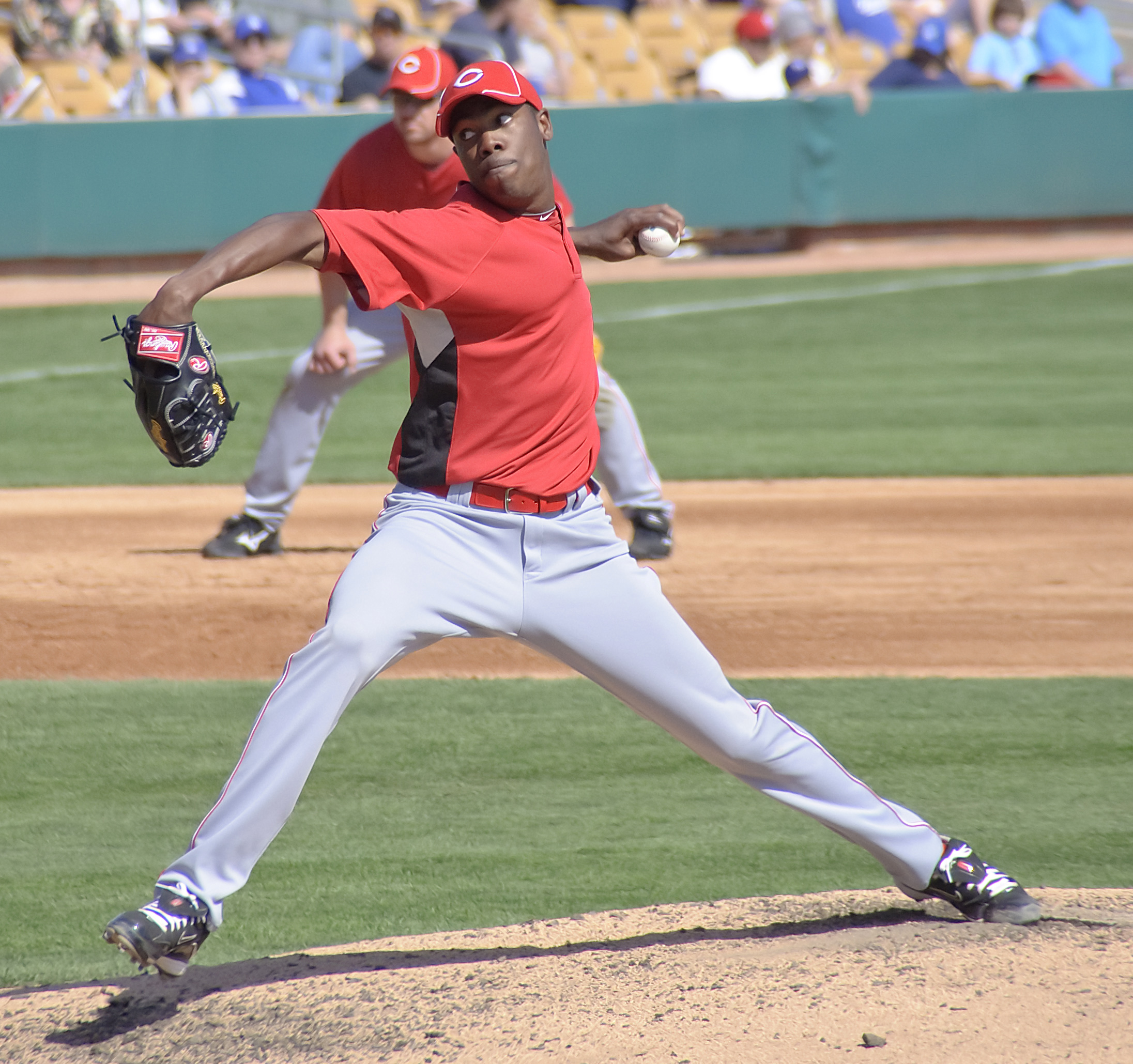 Aroldis Chapman